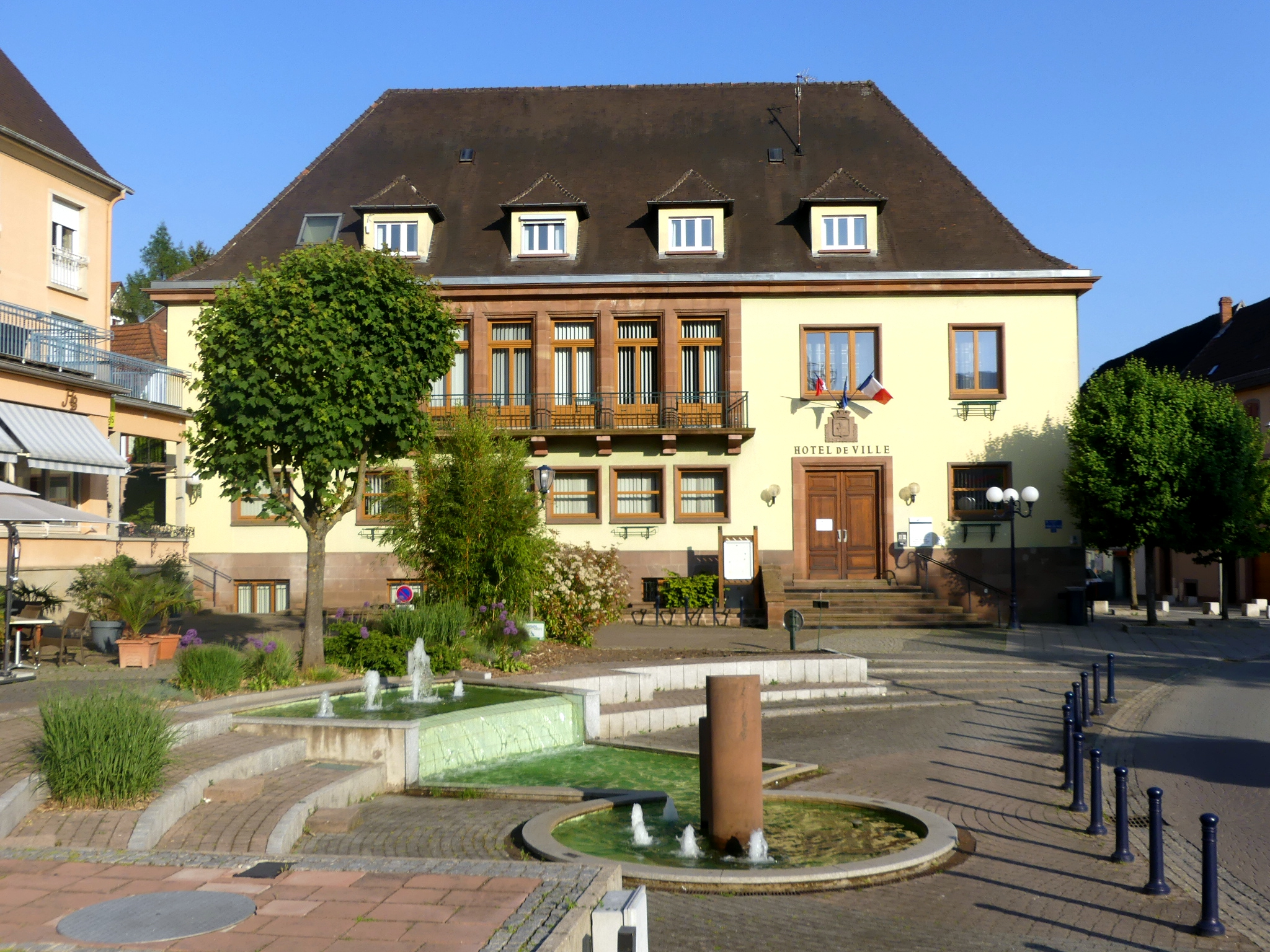 Sight, in the evening, of Niederbronn-les-Bains town hall, in Alsace, France.